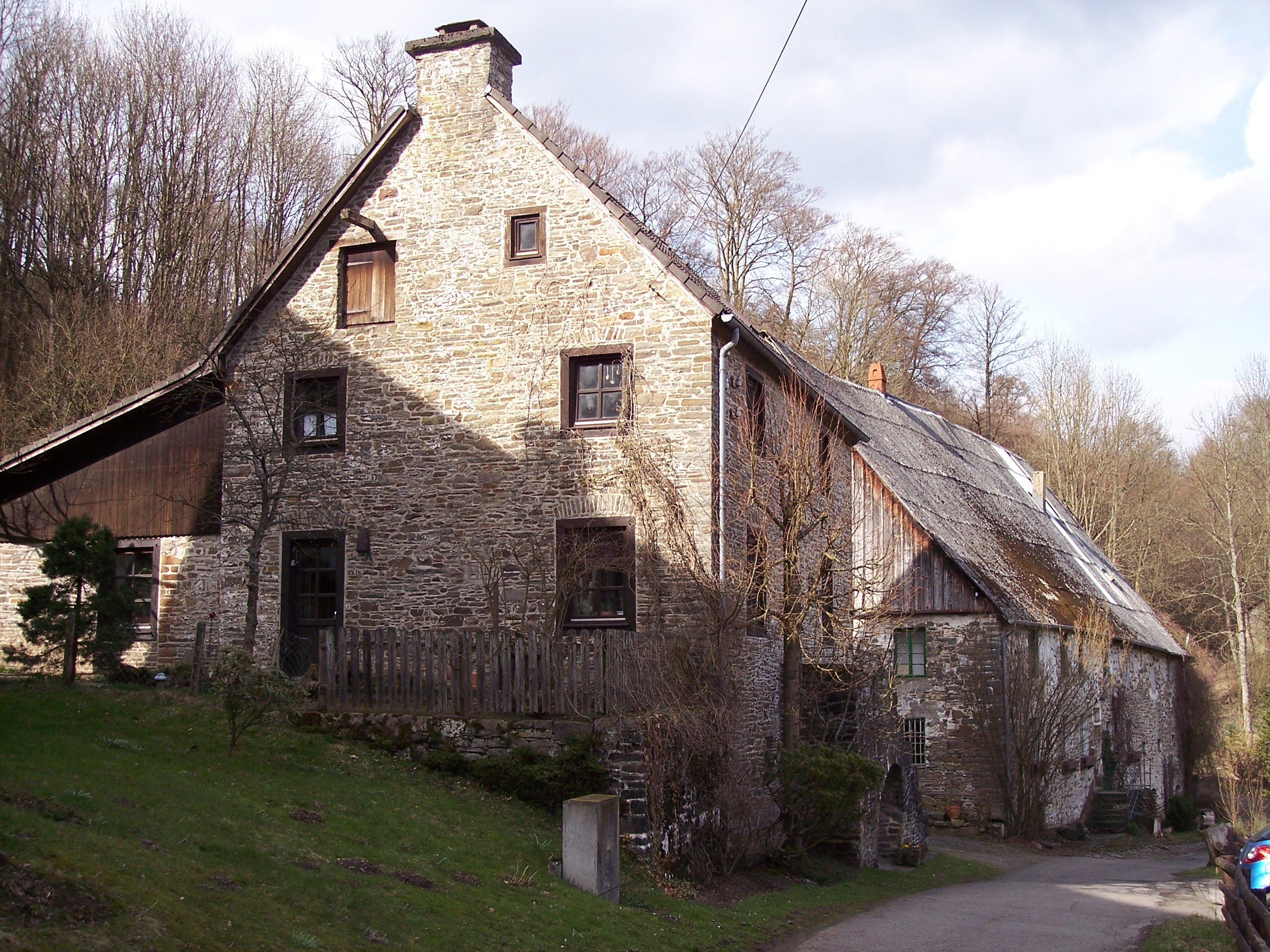 Lüdenscheid-Borbet, historic farm houses